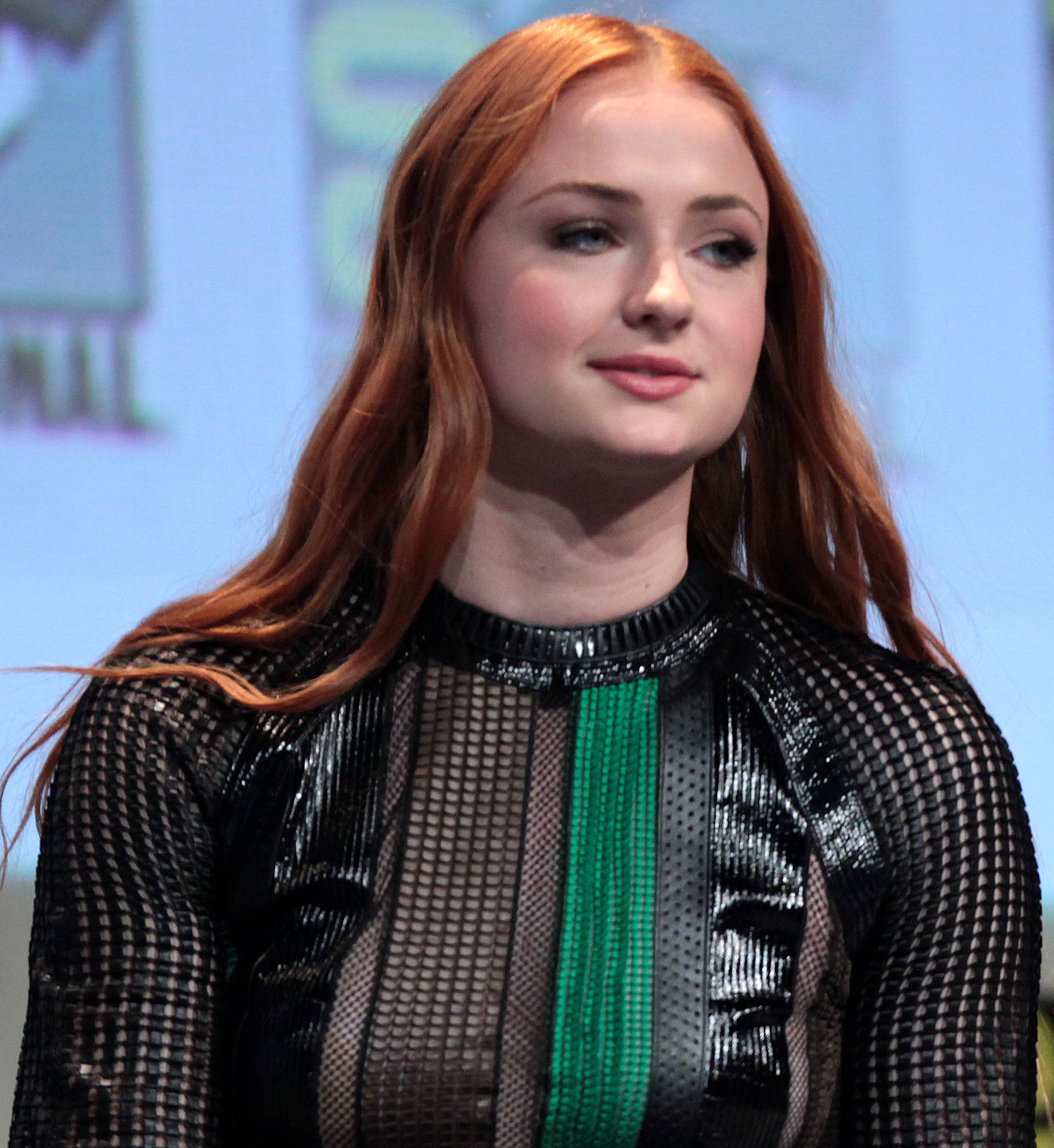 Sophie Turner speaking at the 2015 San Diego Comic Con International, for "Game of Thrones", at the San Diego Convention Center in San Diego, California.